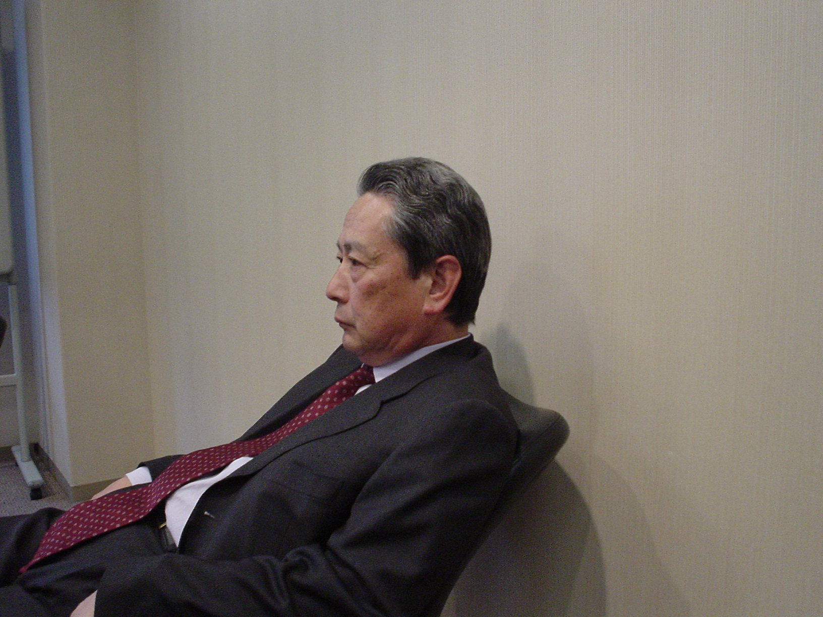 Chairman Idei: Chairman Idei of Sony looks on during meeting